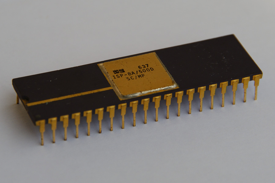 SC/MP, 40 pin Ceramic Dual In-line Package